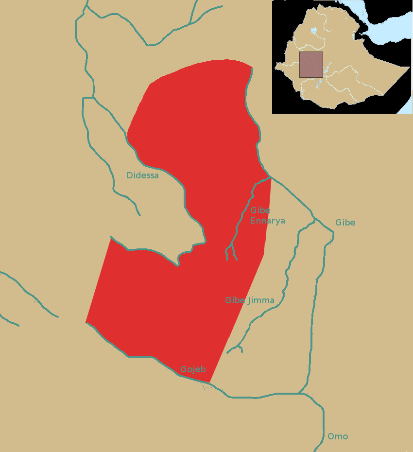 This map is a selfmade copy of a map from the book "The History of the southern Gonga (Southwestern Ethiopia)" by Werner Lange. It depicts the extension of the kingdom of Ennarea in modern southern Ethiopia in around 1500.